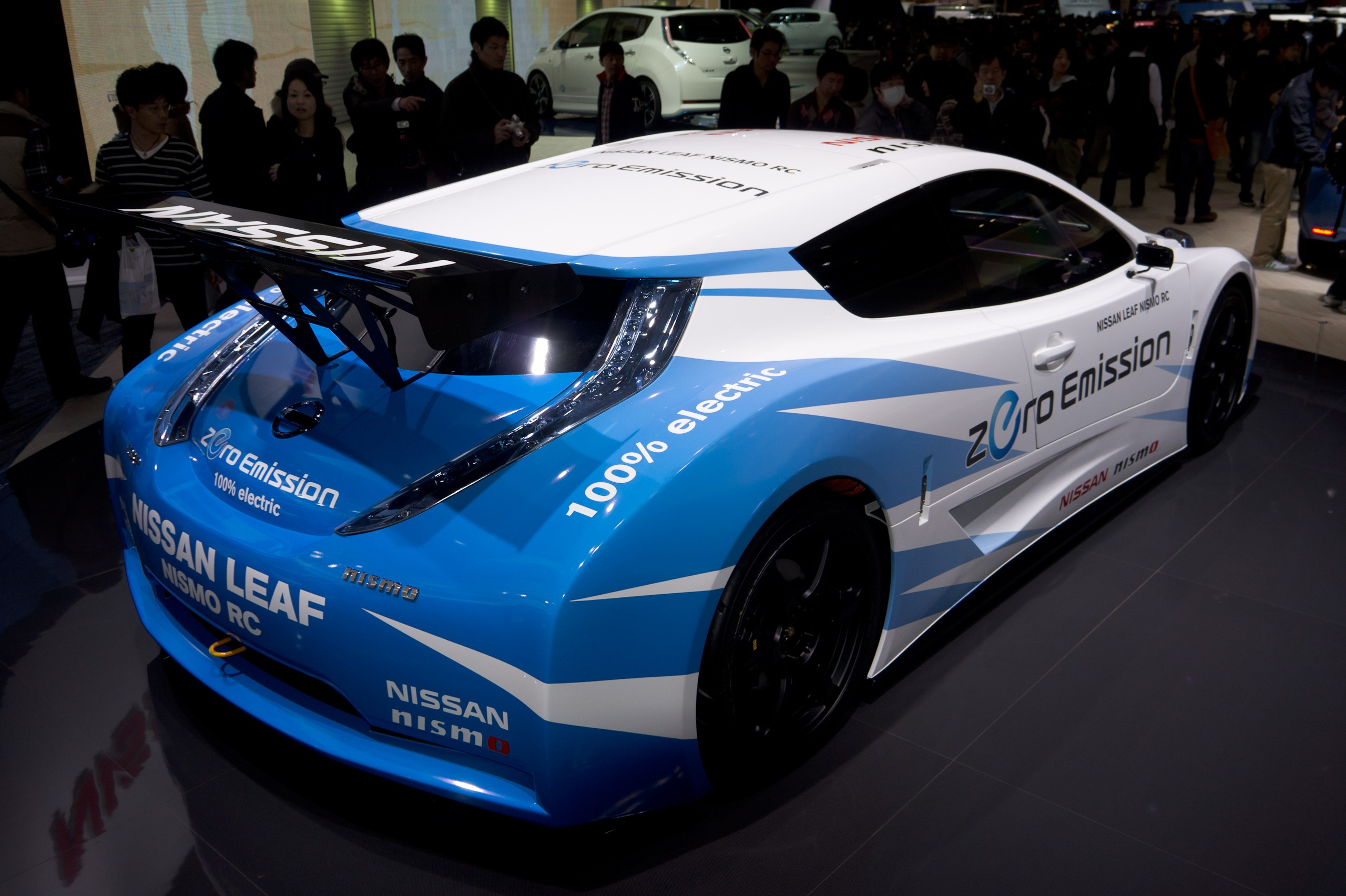 Tokyo Motor Show 2011: Nissan Leaf Nismo RC